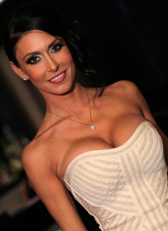 Jessica Jaymes (born March 8, 1979) is an American pornographic actress.